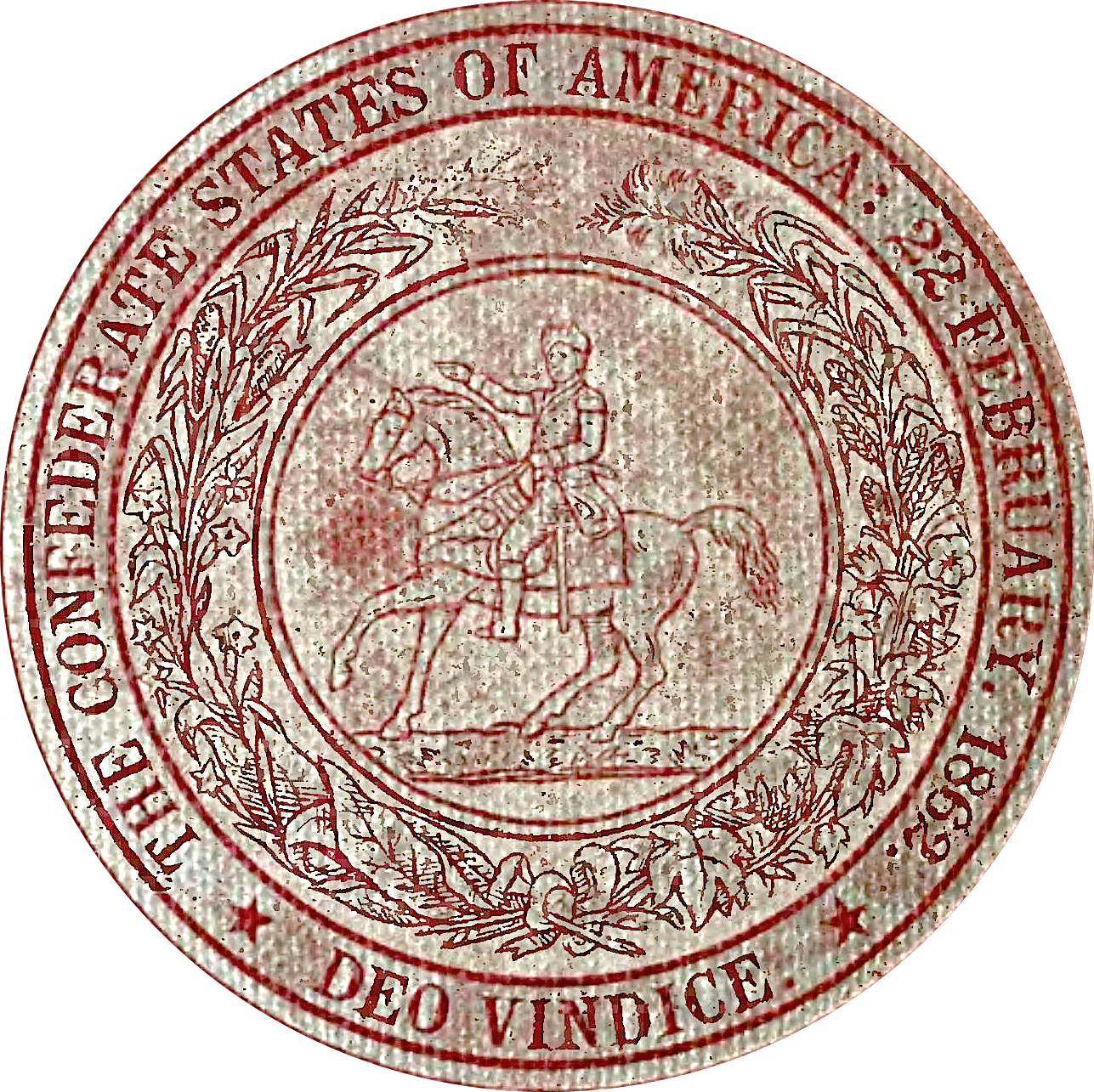 This is an illustration from Confederate military history; a library of Confederate States history vol 4. Edited by Clement Anselm Evans, 1833-1911.